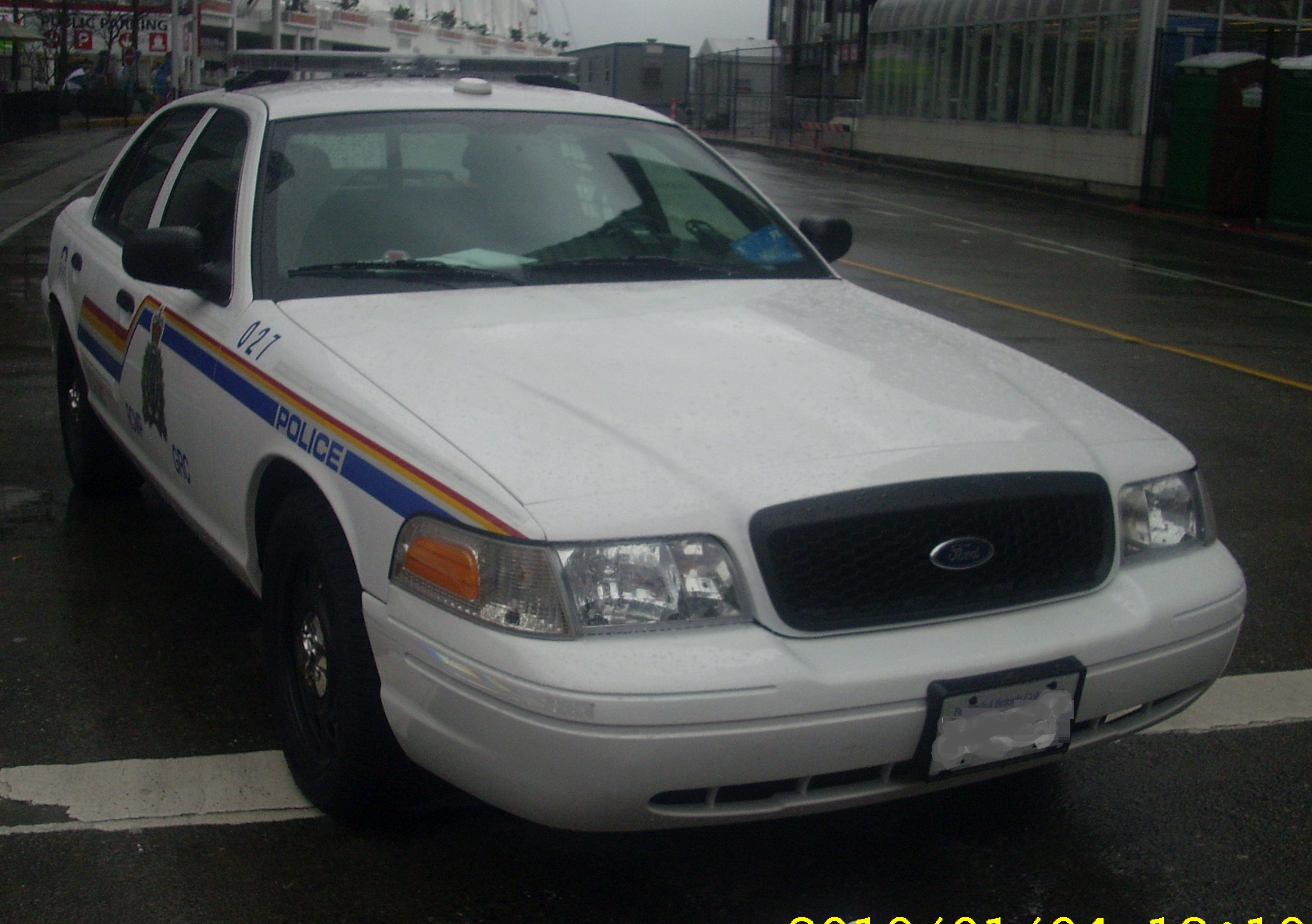 Ford Crown Victoria RCMP photographed in Vancouver, British Coumbia, Canada at the 2010 Winter Olympics.